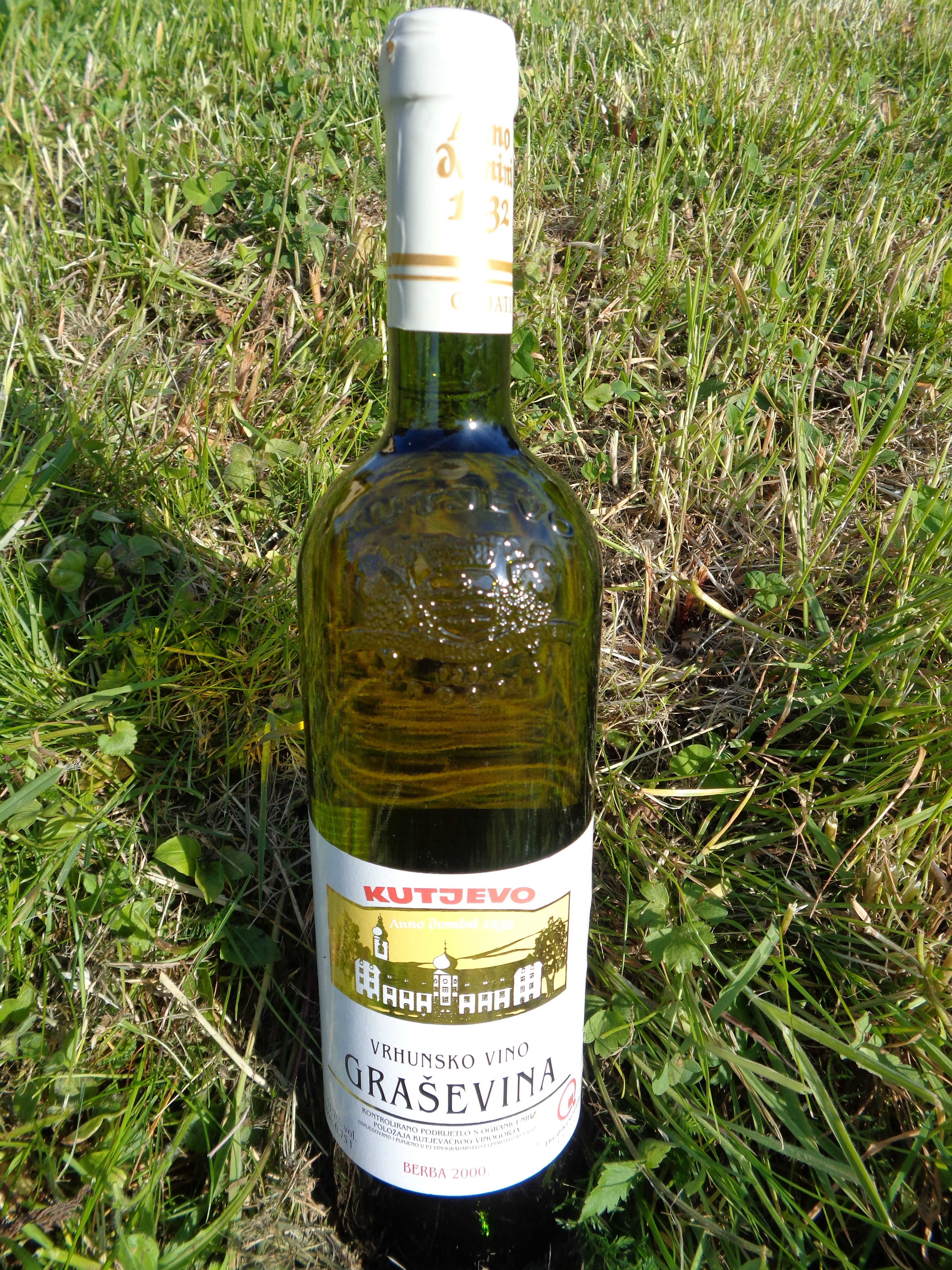 A bottle of Graševina wine (Welshriesling), superior quality white wine with controlled geographical origin, produced in Kutjevo area, Požega-Slavonia County, eastern Croatia (2000 vintage)